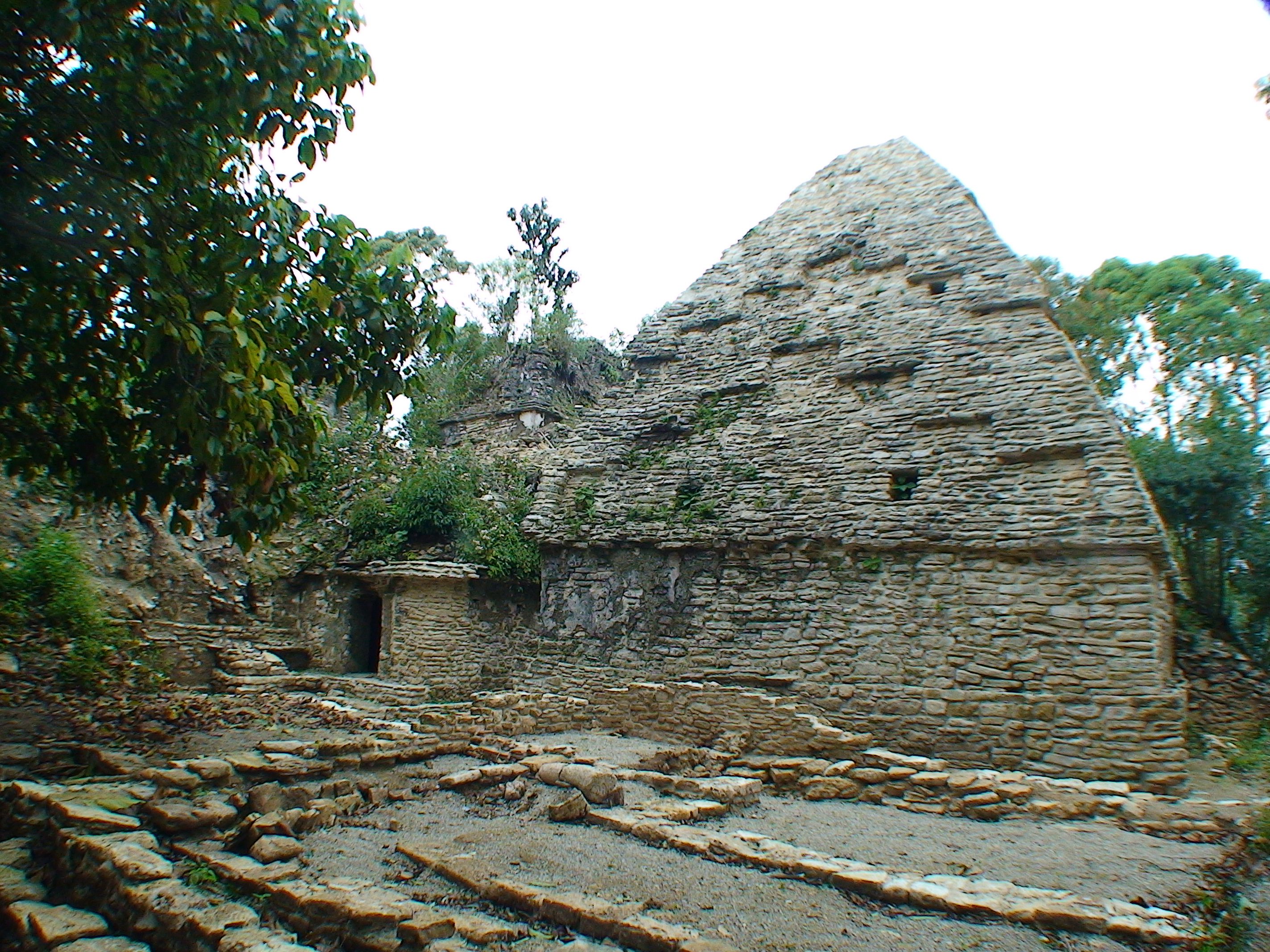 Plan de Ayutla, Chiapas, Mexico: tower buildiung and palace in Palenque stype